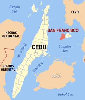 Map of Cebu showing the location of San Francisco